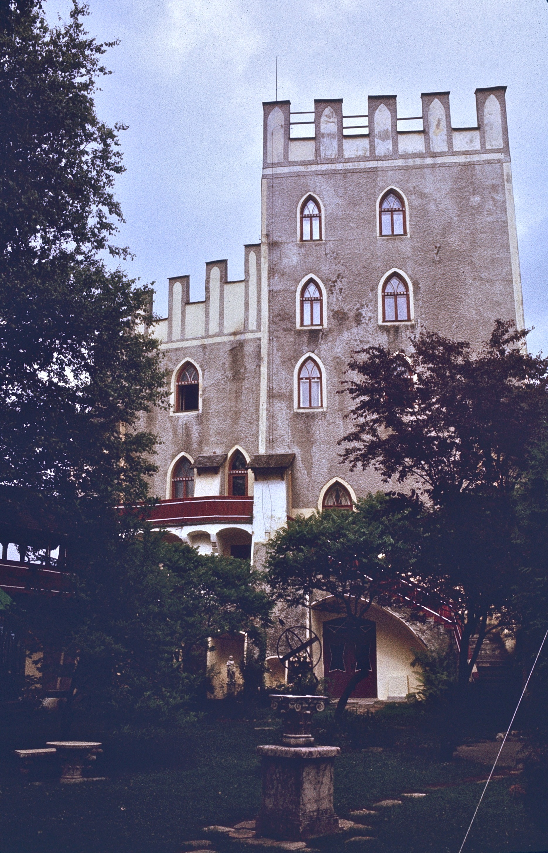 Schloss Itter (Itter Castle) in 1979: The west façade of the castle, viewed from the small garden located there.